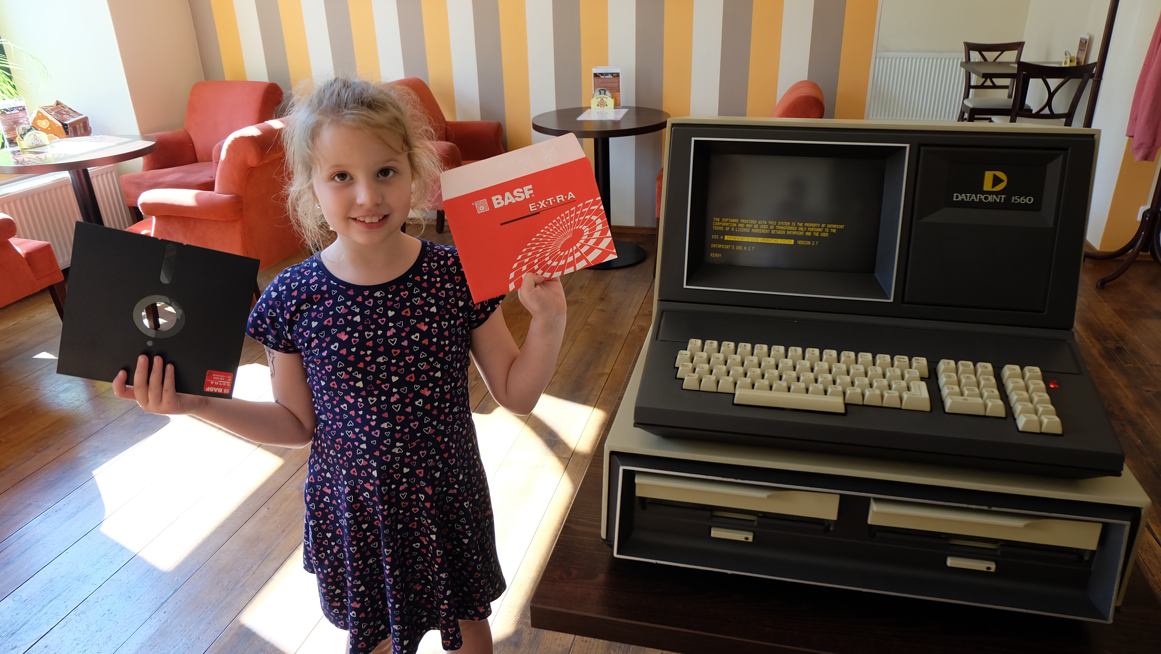 Fully functional and beautiful condition. Location, Retro Computer museum, Zatec, Czech Republic, Europe